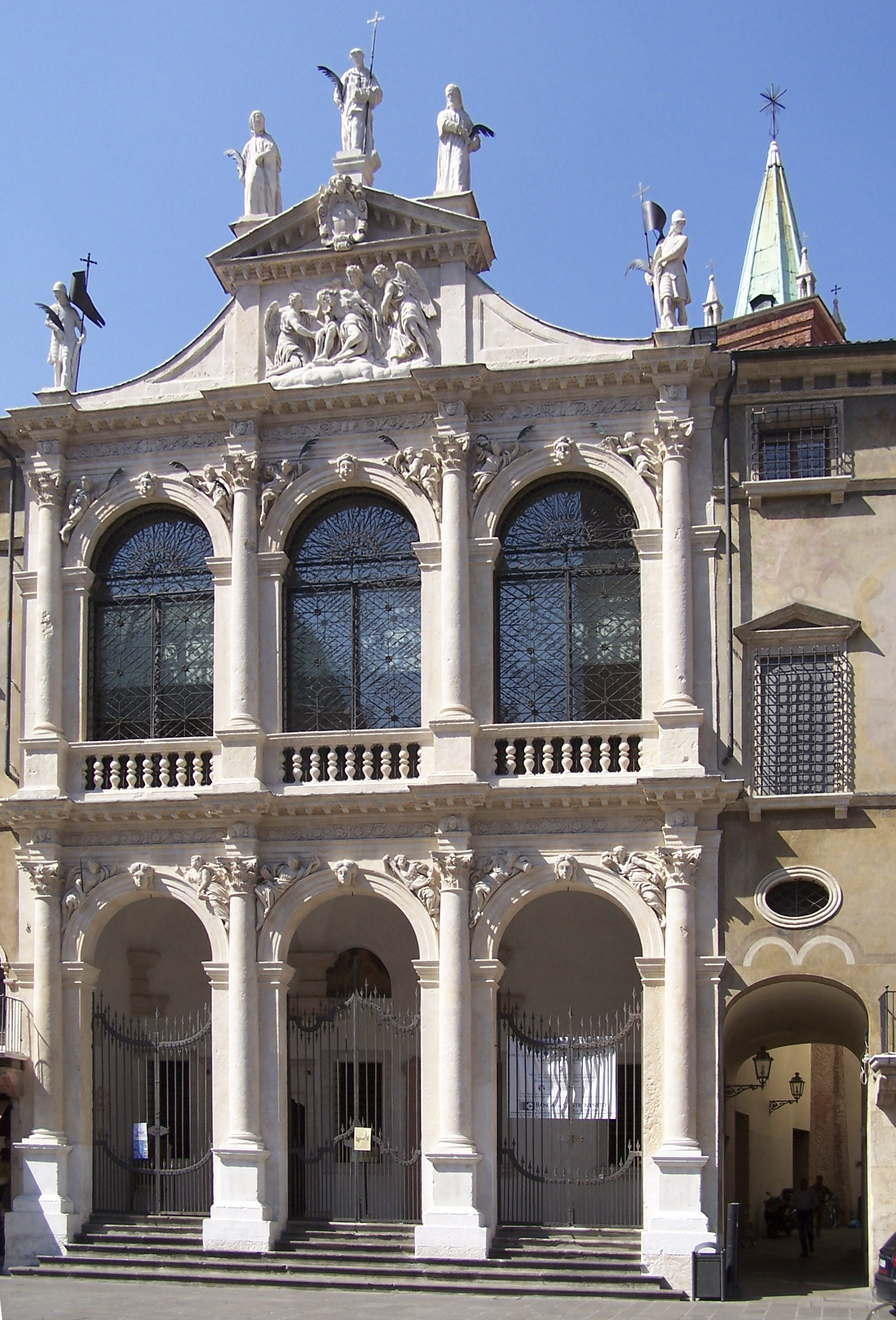 Church of San Vincenzo and lodge (Palazzo del Monte di Pietà), Piazza dei Signori, Vicenza (early 17th century).